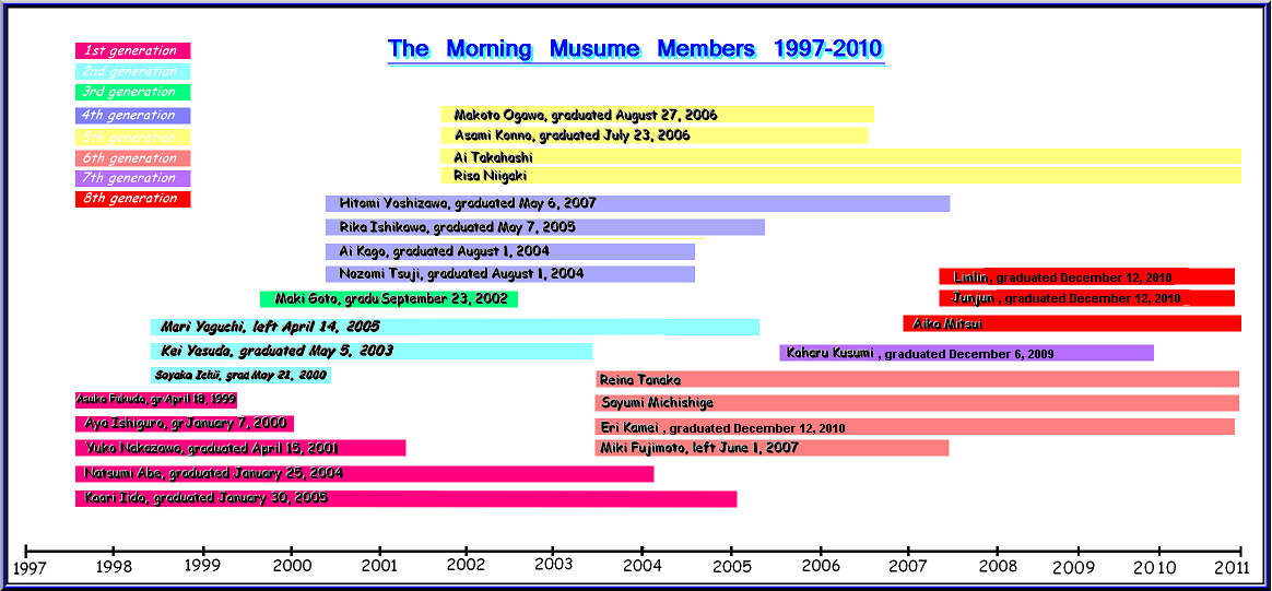 This is my own work (png file) of popular music group from Japan Morning Musume.